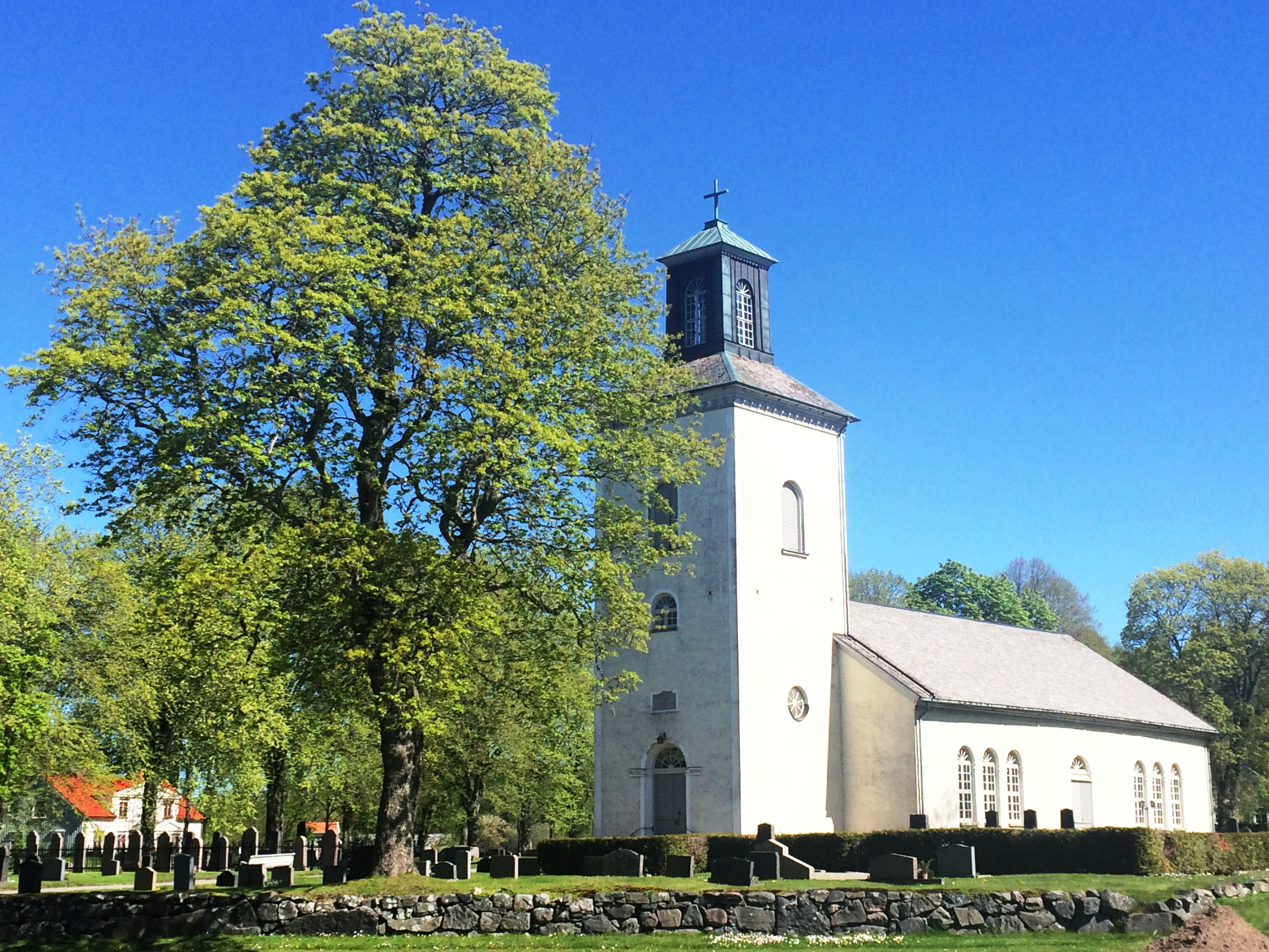 Sparlösa Church, by the Sparlösa Stone site, an old ritual place in Vara municipality, central Sweden.